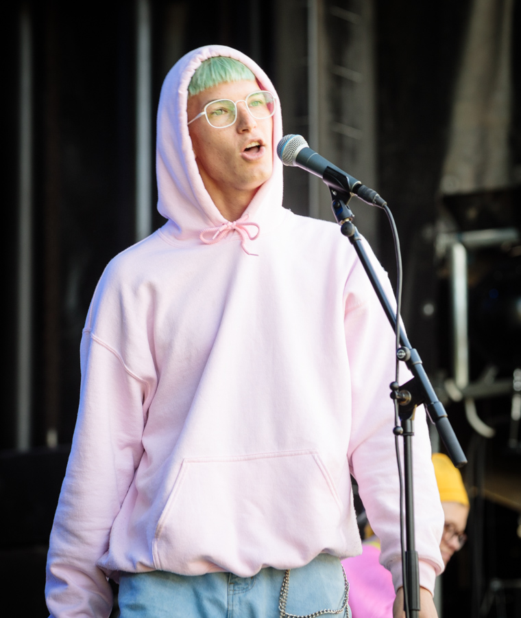 Gus Dapperton at the main stage in the Vigeland Park. The concert was part of Piknik i Parken and took place on 15. June 2018 in Oslo. Lineup:Gus Dapperton (vocal and guitar)Unidentified (drums)Unidentified (bass guitar)Unidentified (keyboard and percussion)